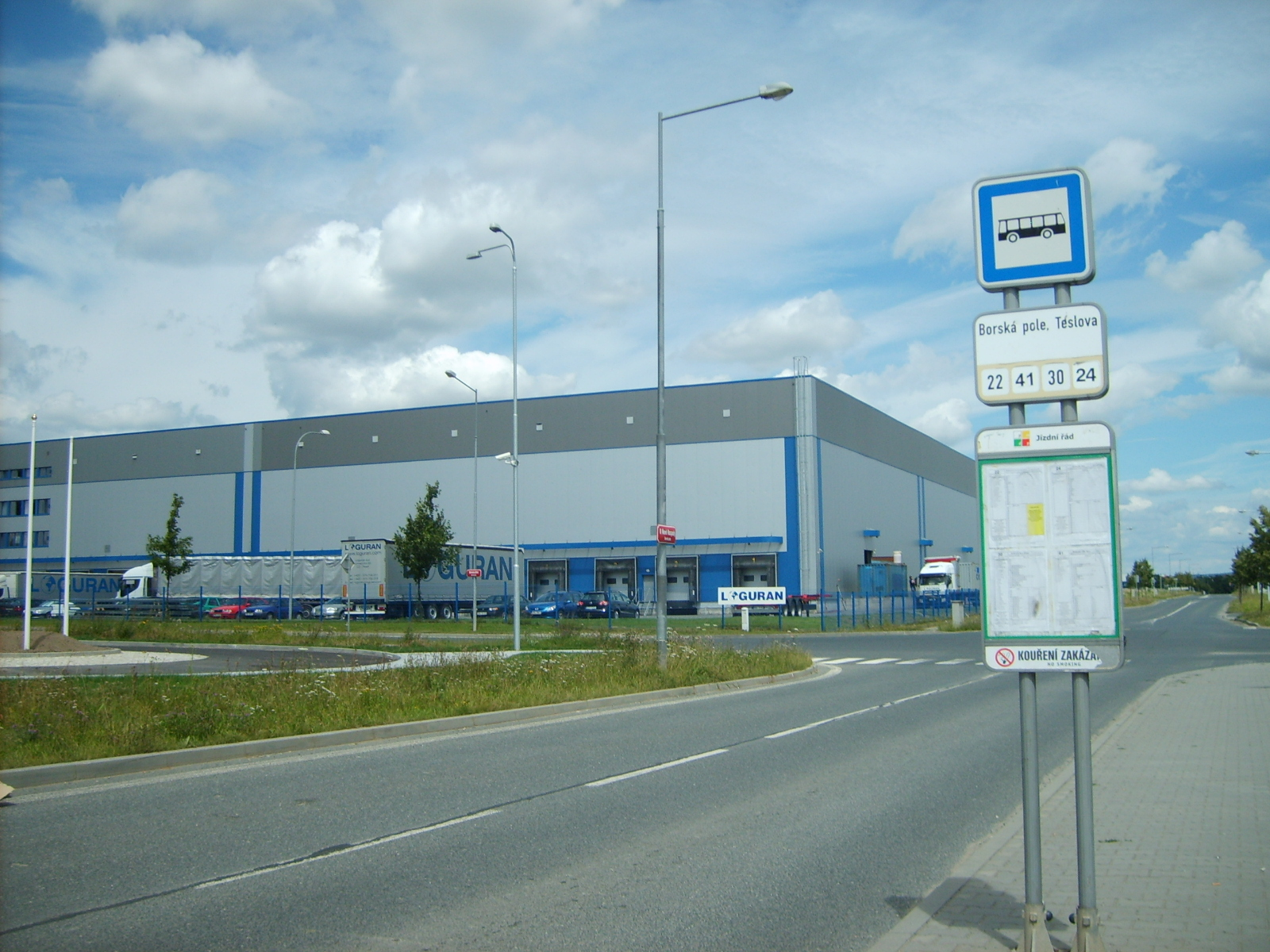 One of much logistic halls in Pilsen modern industrial zone Borská pole.